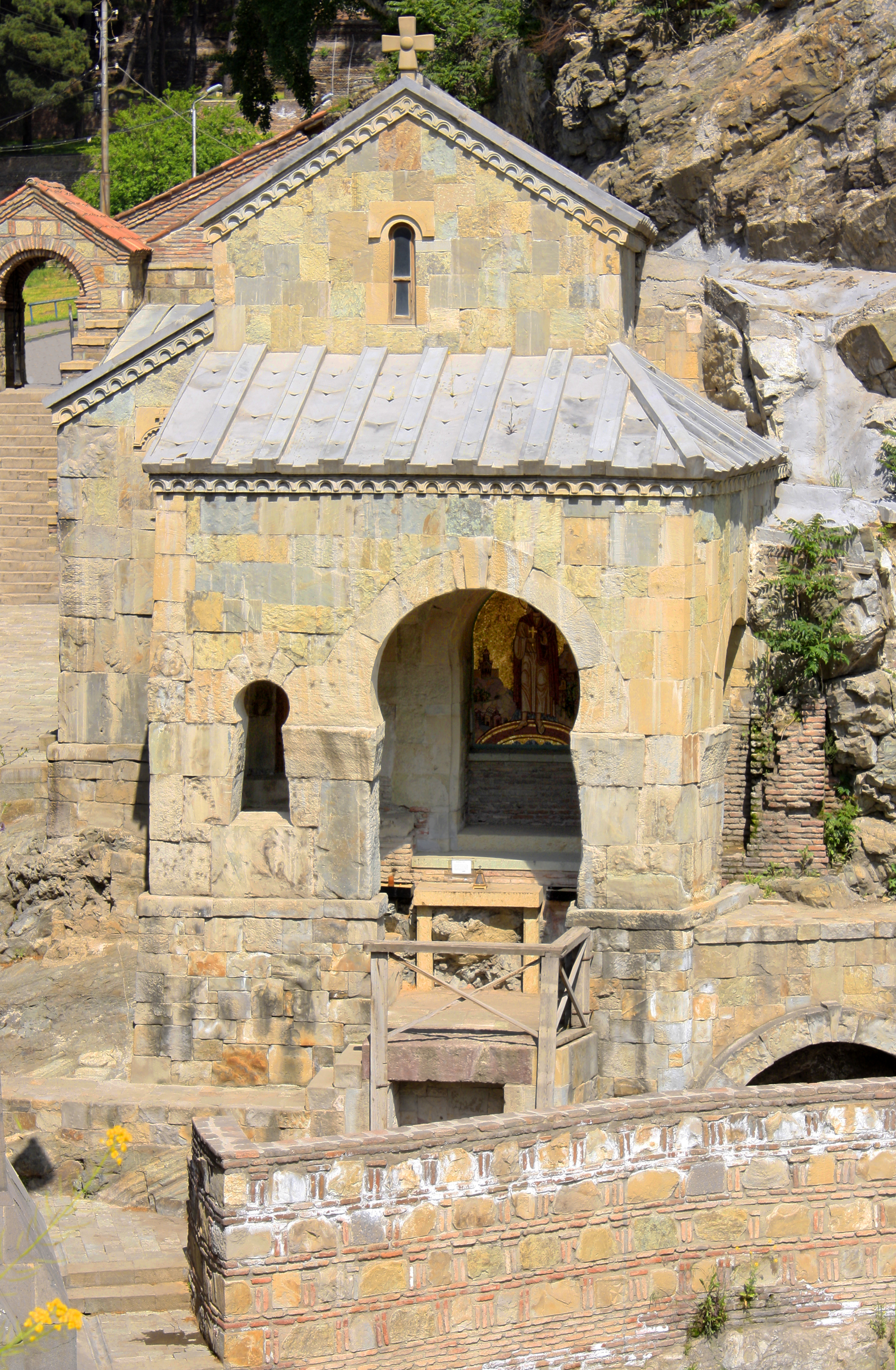 The photo of st. Abo's small church under Metekhi, on the bank of Mtkvari river.